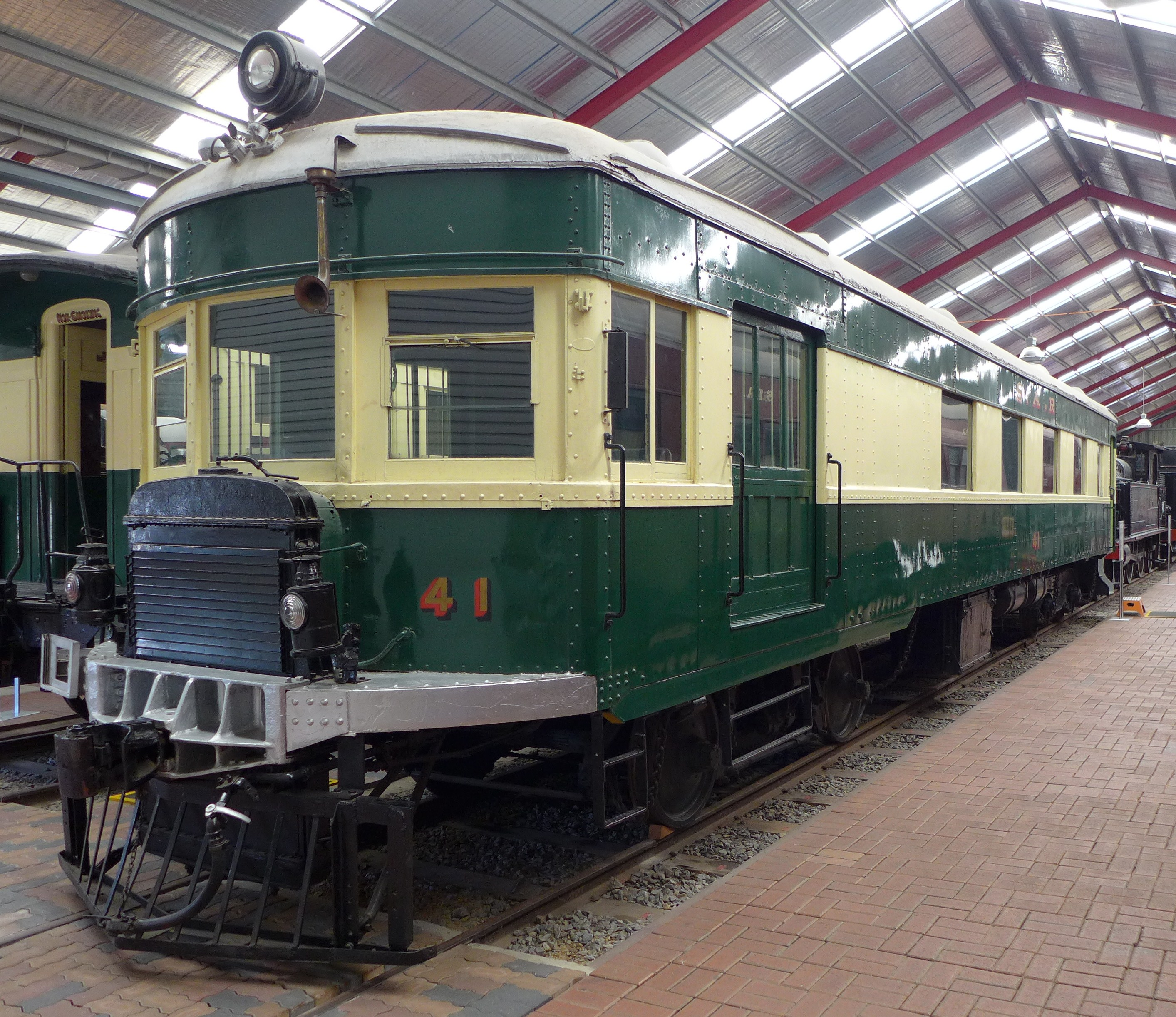 Preserved ex-South Australian Railways Brill railcar no. 41, on display at the National Railway Museum (Port Adelaide).